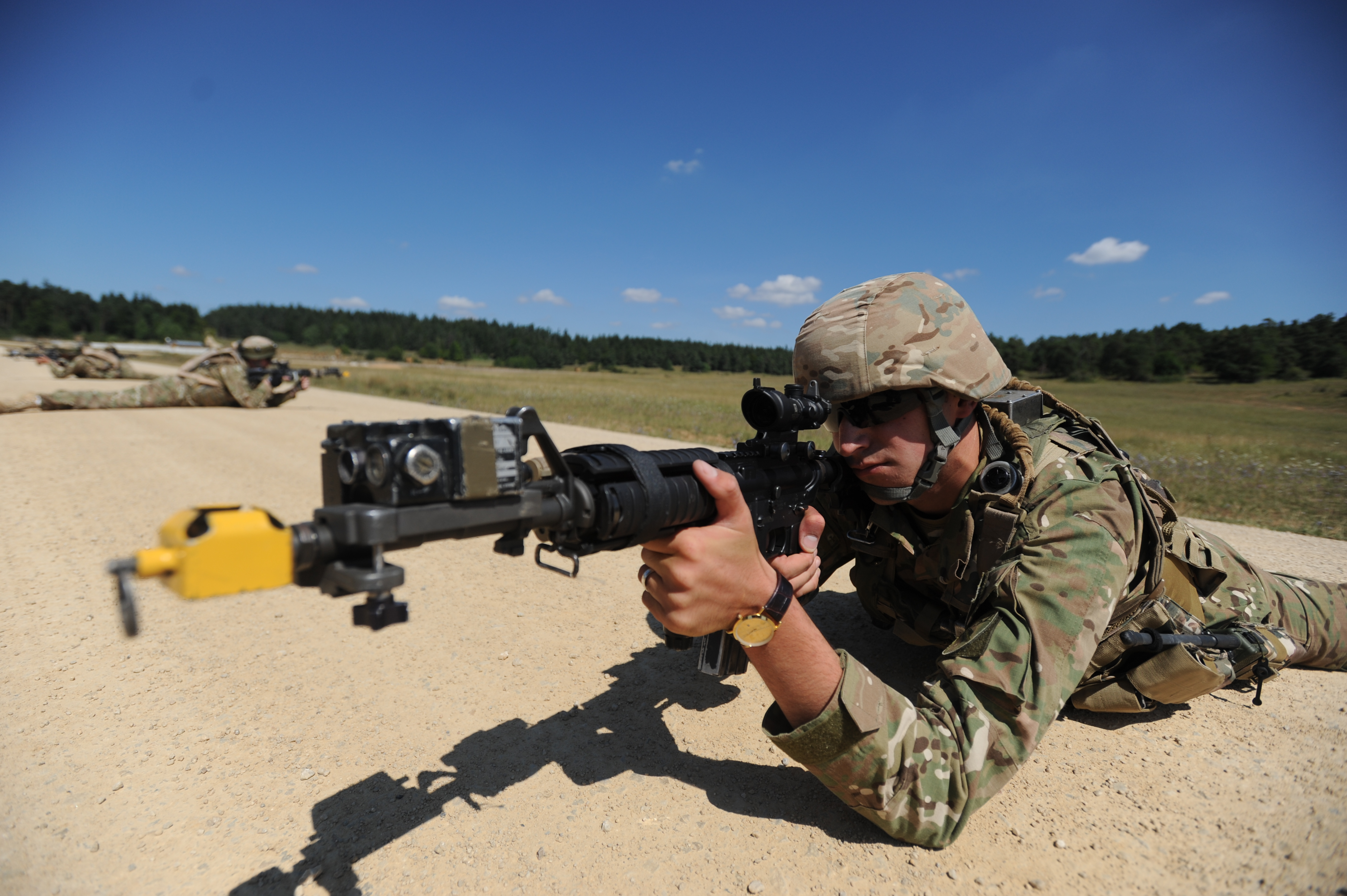 Hohenfels, GERMANY - A soldier from the Republic of Georgia’s 32nd Light Infantry Battalion esprovides security during a Situational Training Exercise lane at Europe’s premiere training site, the Joint Multinational Readiness Center at Hohenfels, Germany. Georgian soldiers were participating in a mission-rehearsal exercise for their upcoming deployment to Afghanistan. U.S. Marine advisors and enablers, who will deploy with the unit to combat, worked side by side with their counterparts during the exercise. (U.S. Army Europe photo by Spc. Joshua E. Leonard)